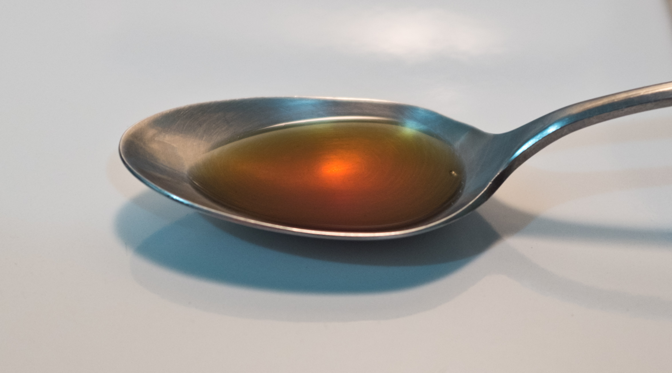 A spoonful of Liquid Smoke